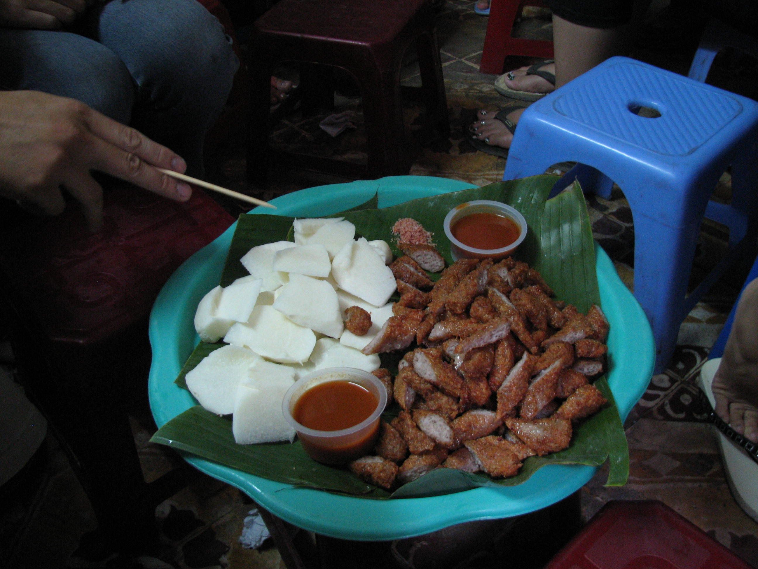 Grilled pork meatballs Hang Bong style, a specialty of Hanoi. Hình do người truyền lên chụp tháng 8 năm 2007. Nem chua nướng